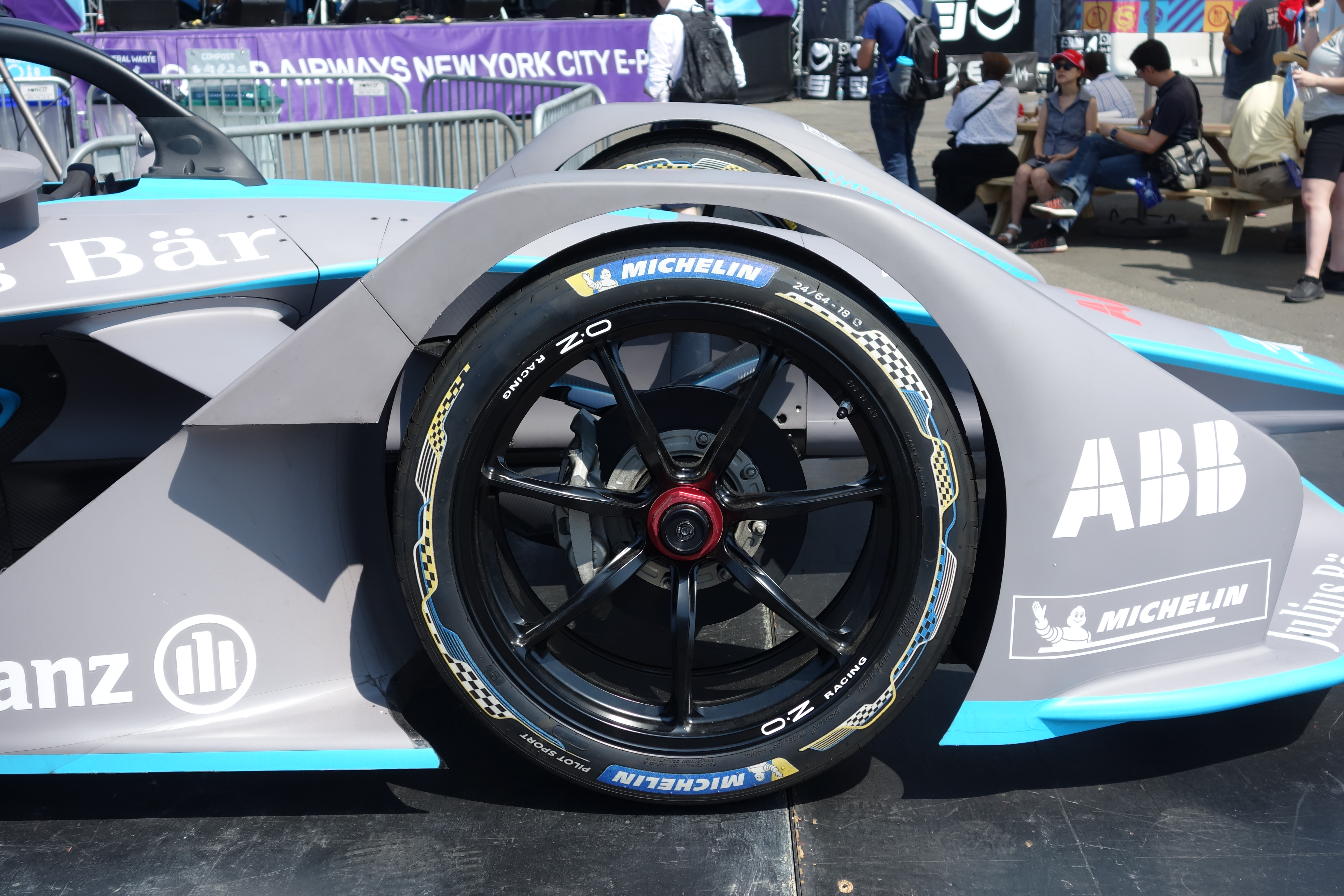 The new Spark SRT 05e Formula E car on display in Allianz eVillage of the Brooklyn Street Circuit during the first race of the 2018 New York City ePrix on Saturday, July 14, west of Imlay Street and Bowne Street in Red Hook, Brooklyn. The new car will debut in the 2018-2019 season. Pictured is the Michelin wheel of the car, which unlike a production car or NASCAR automobile uses a center wheel nut.